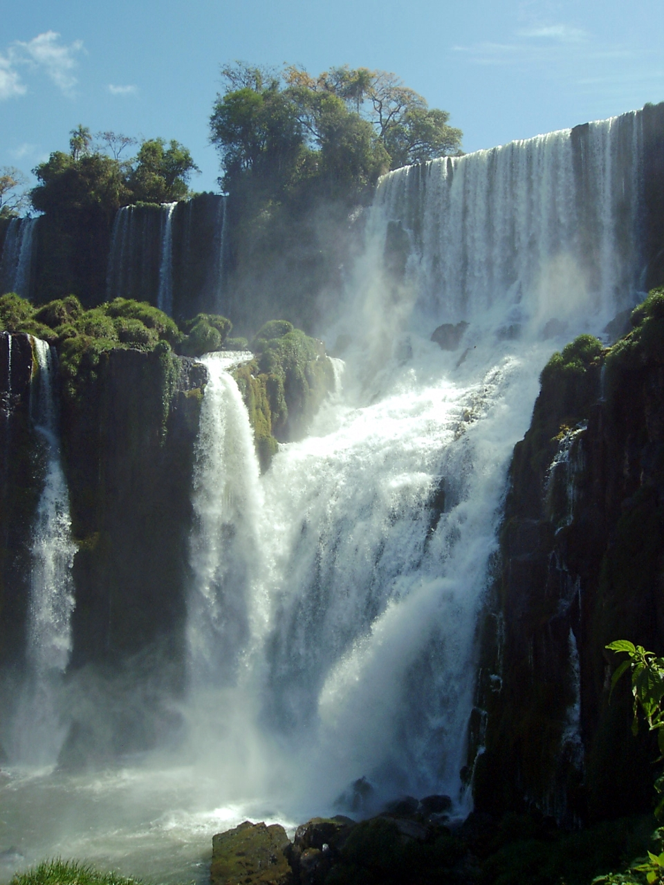 Cataratas del Iguazú, one of the waterfalls on the argentinian side photo taken by myself, Timo Sachsenberg, (Konica Revio KD-3300)